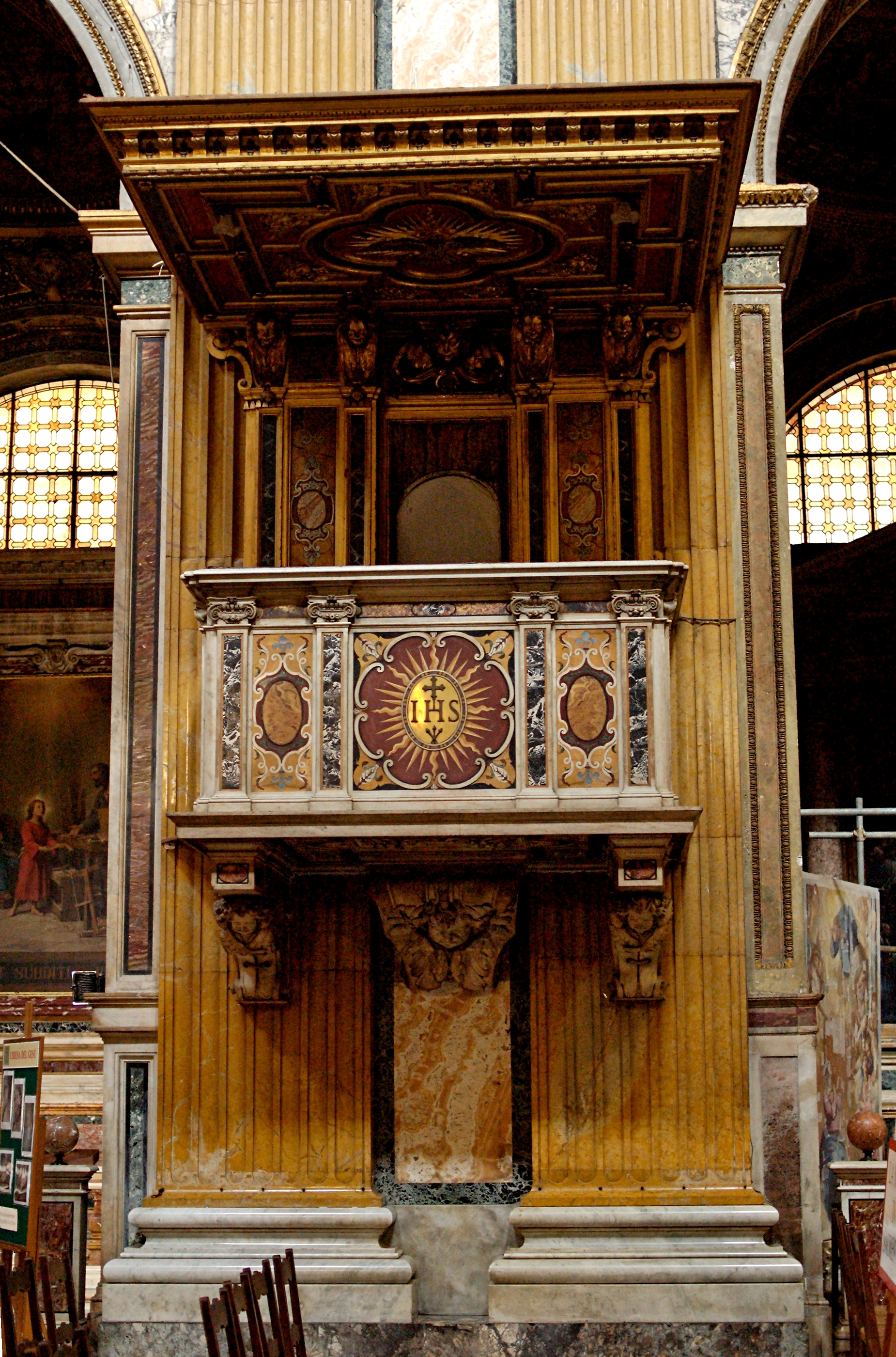 Pulpit of the Gesù, Rome, Italy.